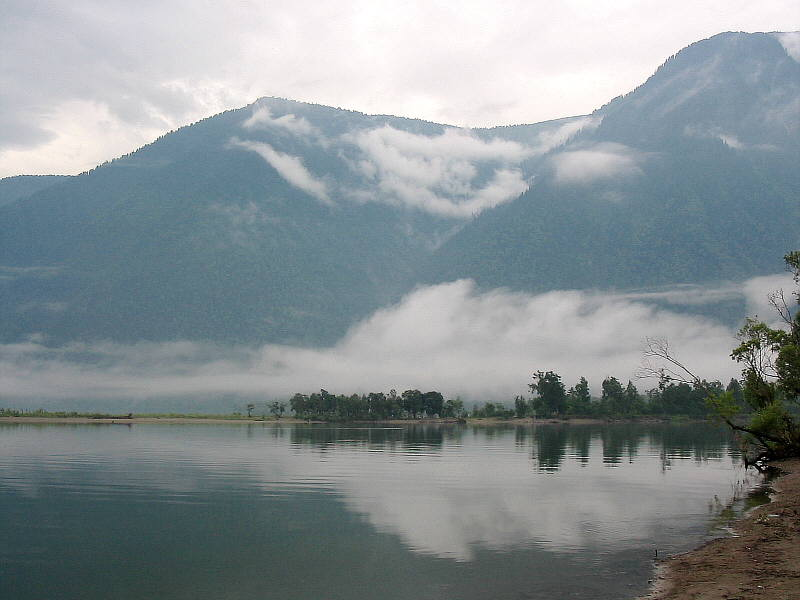 Lake Teletskoye, southern end. Kyshinskiy bay and Chulyshman river delta.